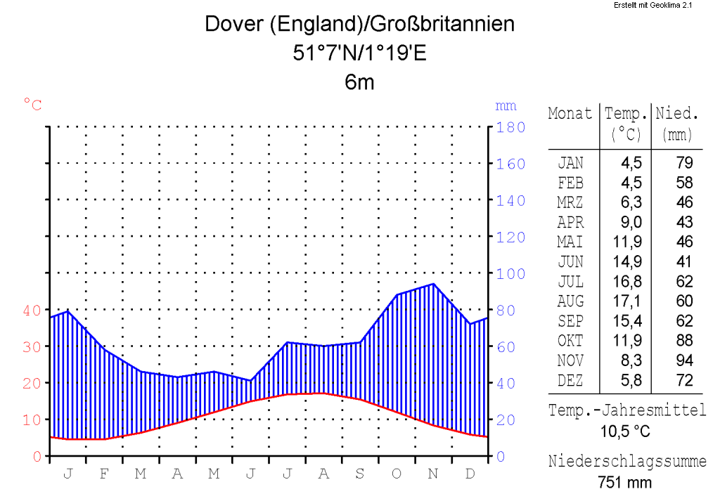 climate chart in the format by Walter and Lieth, metric, °Celsisus and millimeters, made with Geoklima 2.1